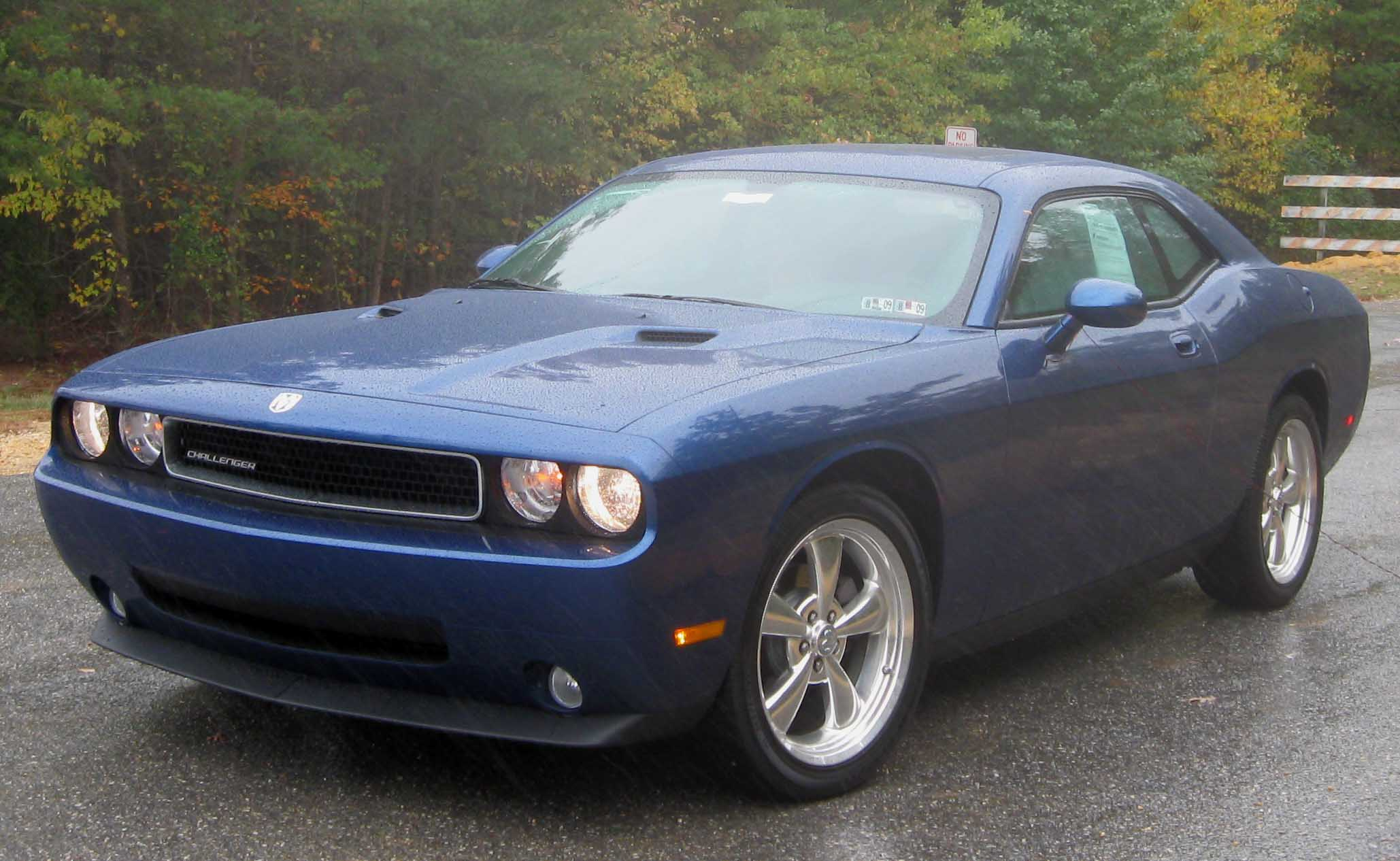 2009 Dodge Challenger photographed in Waldorf, Maryland, USA.